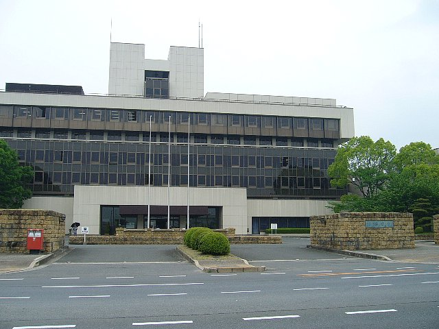 City office of Nara, Japan